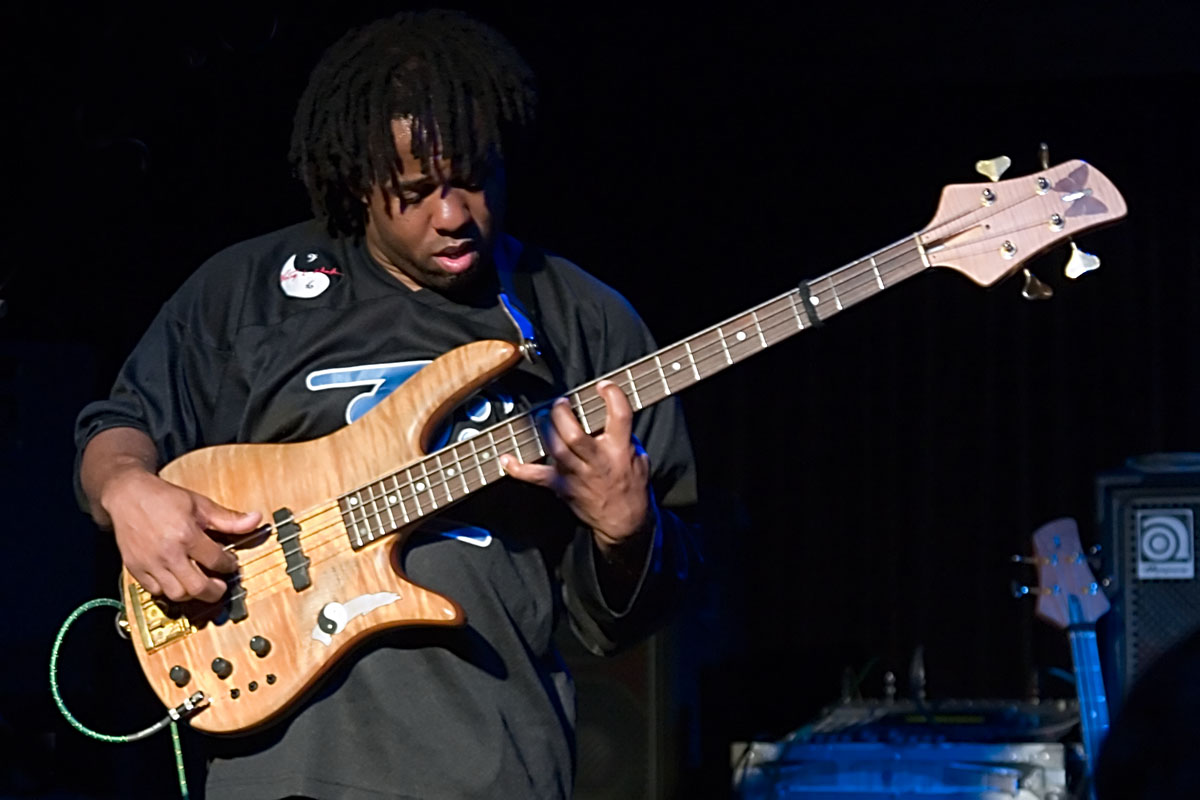 Victor Wooten playing his bass guitar at the Belly Up, 2006-03-04.